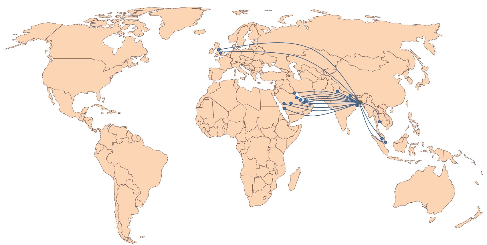 Biman flies internationally to: London, Manchester; Riyadh, Dammam, Medina, Jeddah; Kuwait; Doha; Abu Dhabi, Dubai; Muscat; New Delhi, Kolkata; Kathmandu; Bangkok; Kuala Lumpur; Singapore.